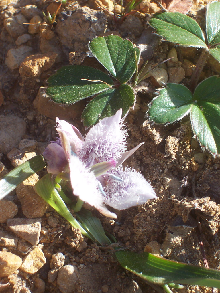 Calochortus tolmiei — Pussy Ears, Tolmie star-tulip. At Stump Beach in Salt Point State Park, Sonoma County, California. May 6, 2006.